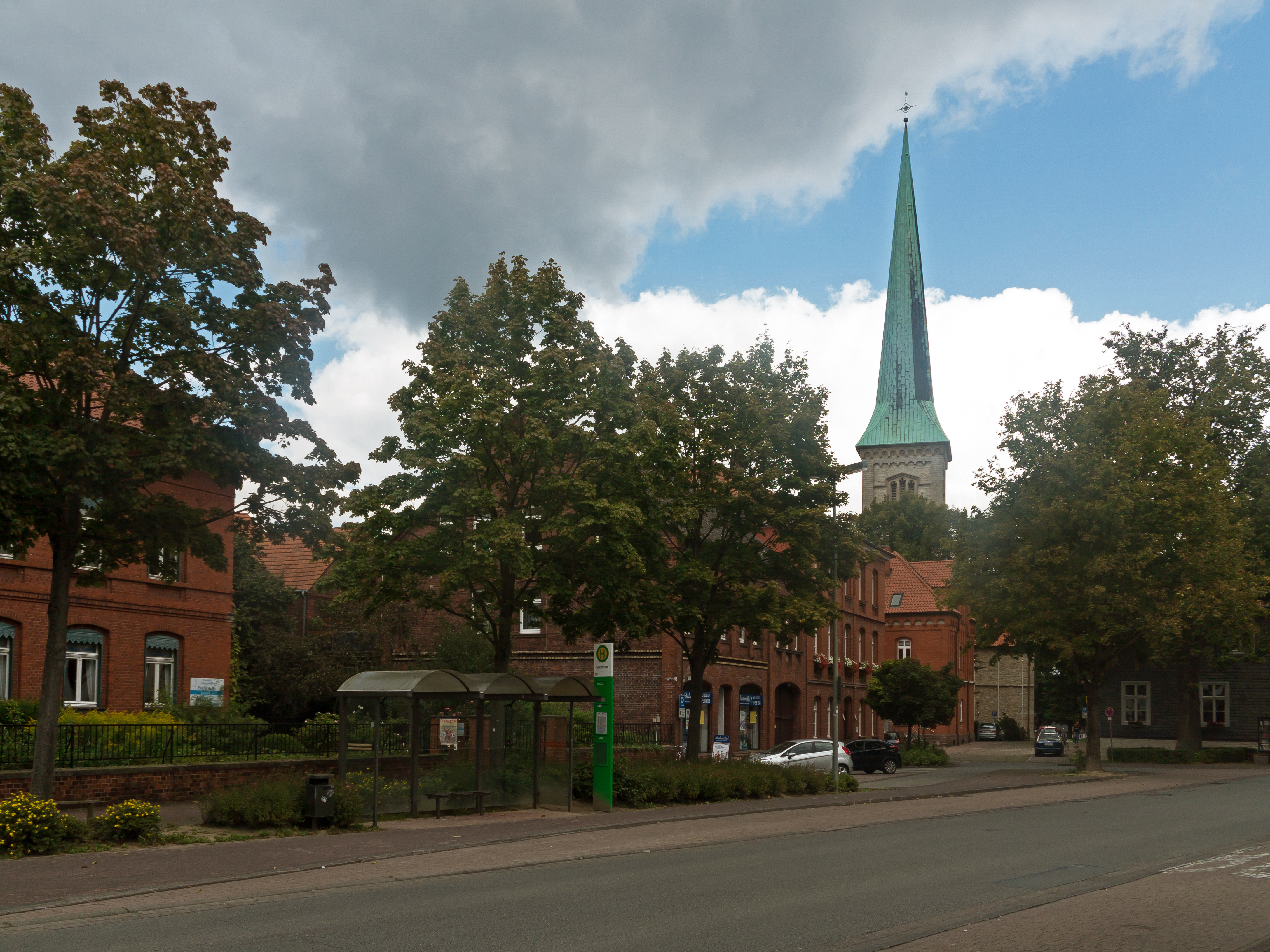 Brakel, churchtower (die katholische Pfarrkirche Sankt Michael) in the streetThis is a photograph of an architectural monument., no. 5